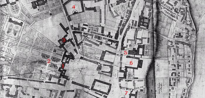 Map of Warsaw (detail). Features: 1. Saxon Palace. 2. Saxon Garden. 3. Brühl Palace. 4. Marywil. 5. Carmelite Church. 6. Radziwiłł Palace. 7. Visitationist Church.